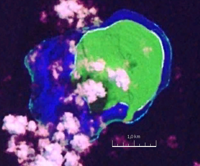 satellite image of Vatu Vara island, northern Lau Group, Fiji